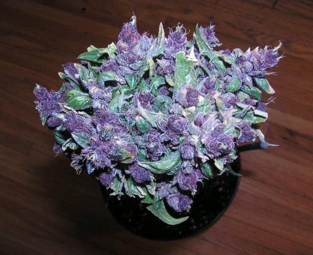 Purple Haze flower.